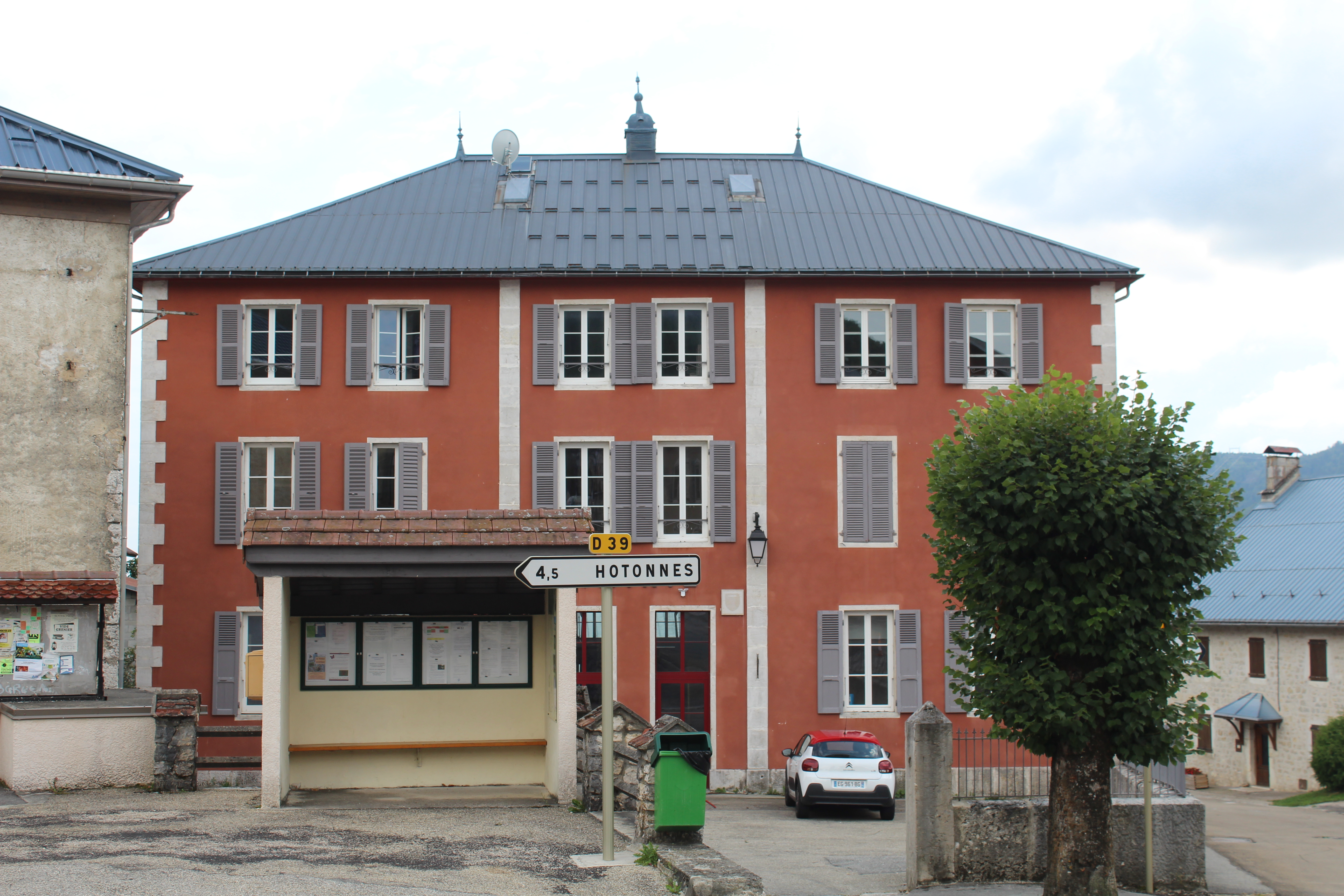 Unknown language: Mairie du Grand-Abergement, Haut-Valromey.